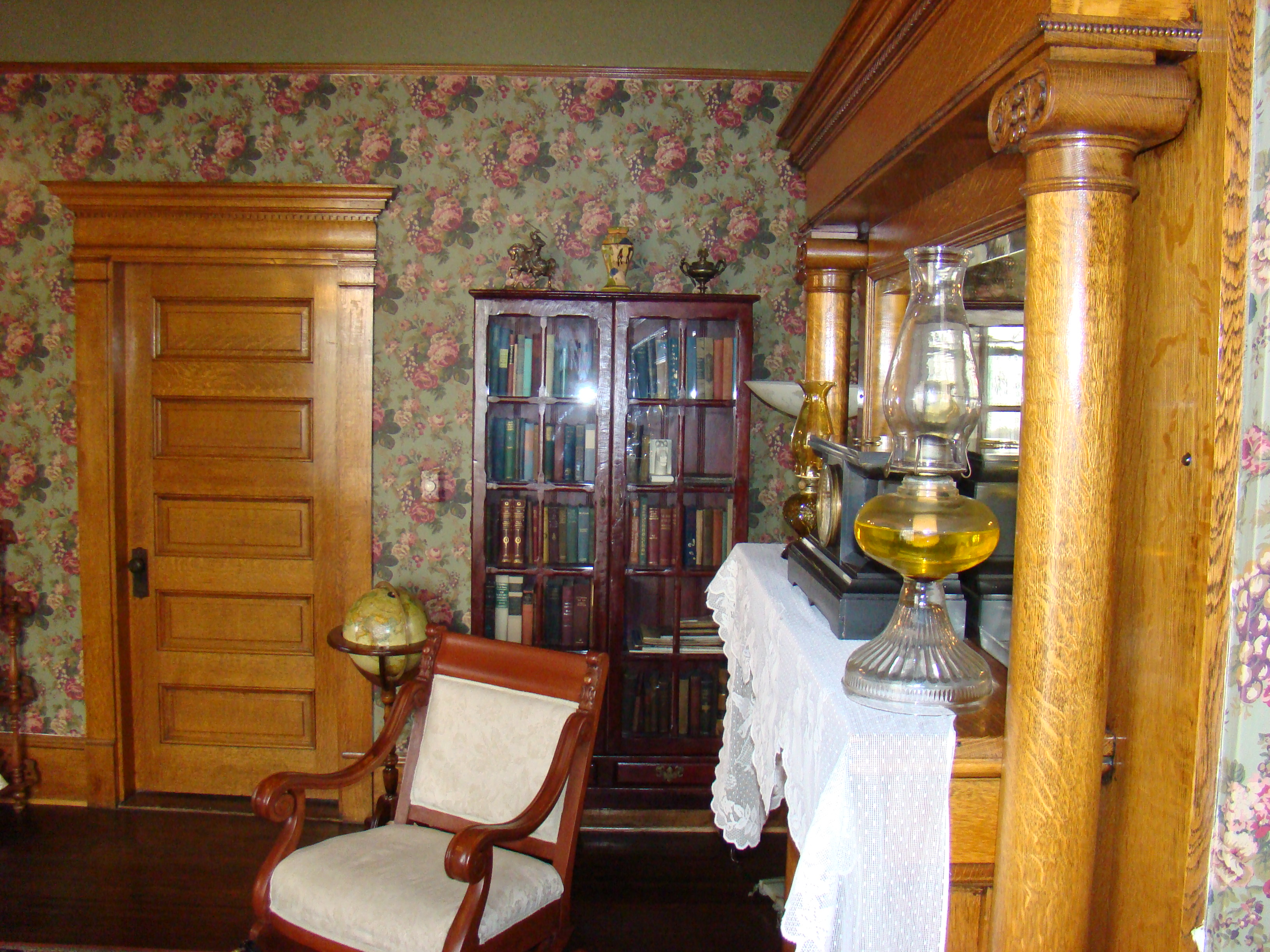 Front parlor of The Simmons-Bond House. The house, located in Toccoa, Georgia, was constructed by architect Levi Prater for lumberman James B. Simmons in 1903. The mansion is now a Victorian inn.